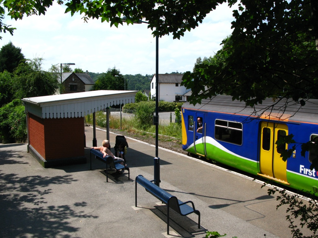 150127 calls at Calstock station in Cornwall with a Tamar Valley Line service to Gunnislake.